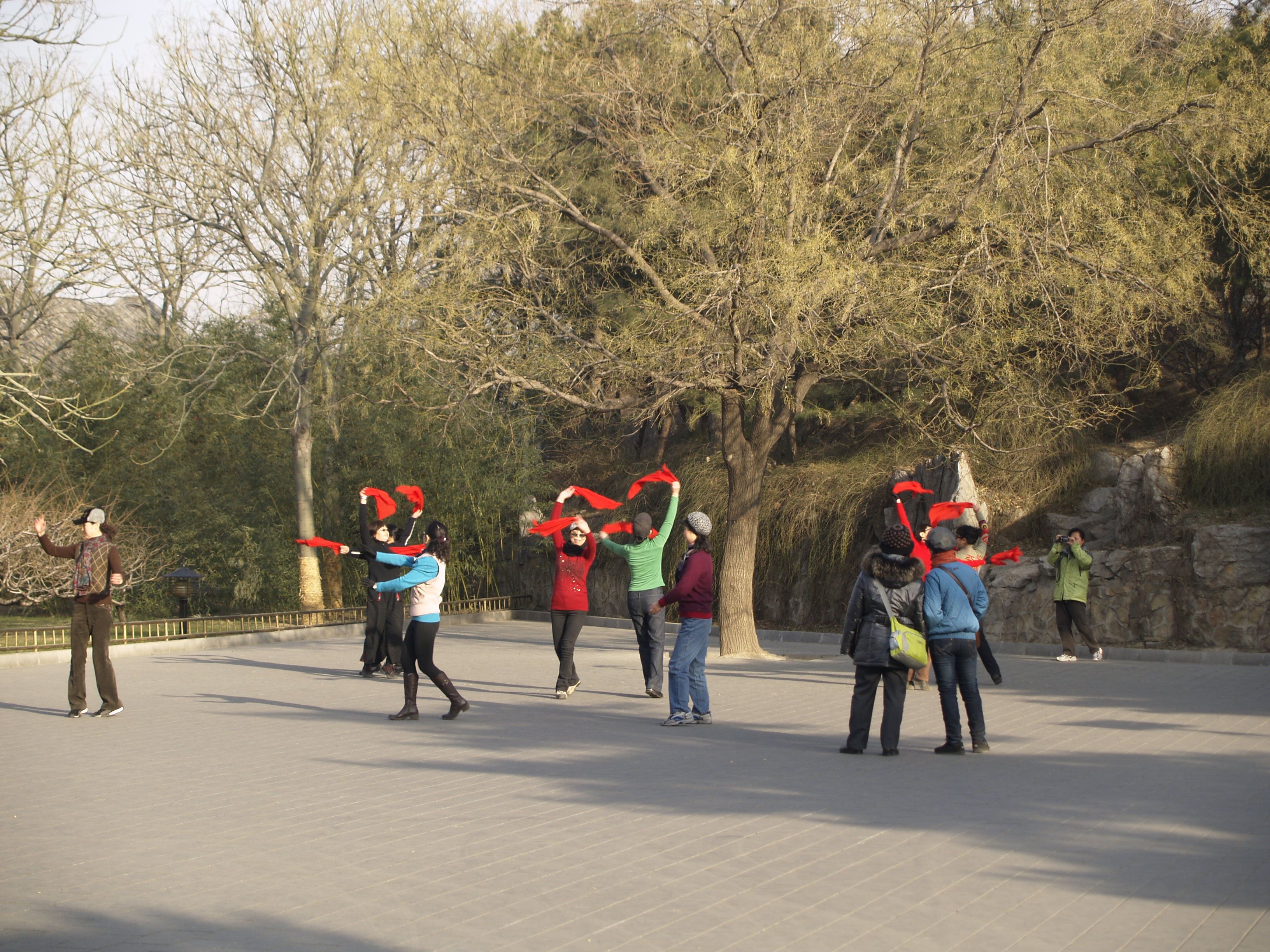 Chinese women engaging in fitness dancing in the Summer Palace grounds.